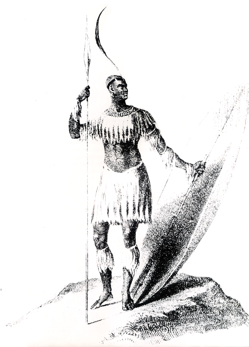 Shaka, king of the Zulu. After a sketch by Lt. James King, a Port Natal merchant.